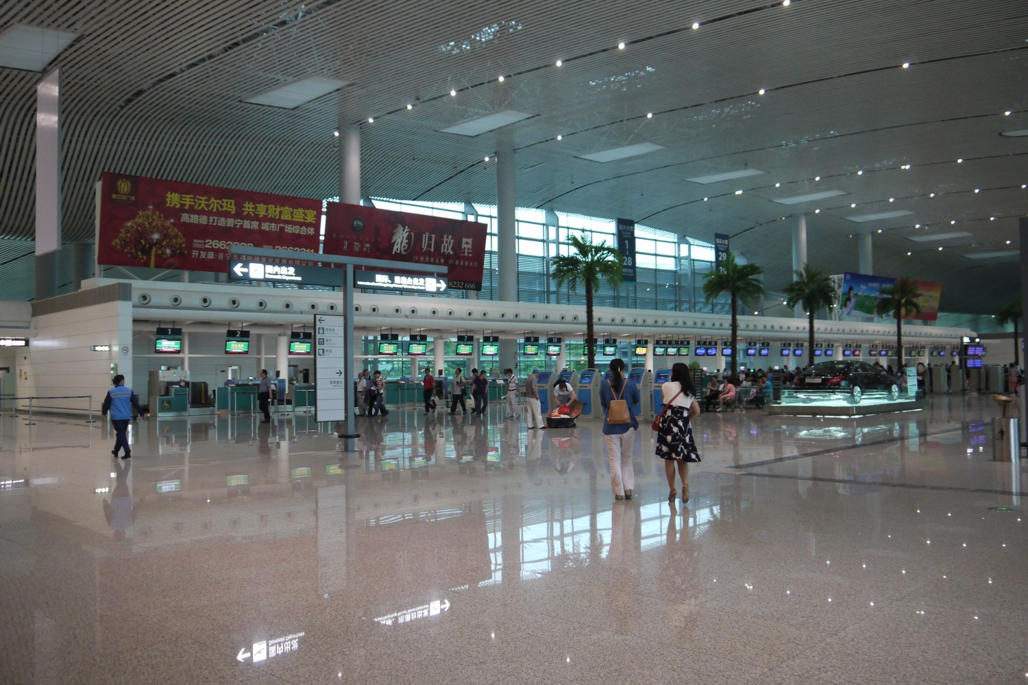 Shantou Airport - Departures Inside